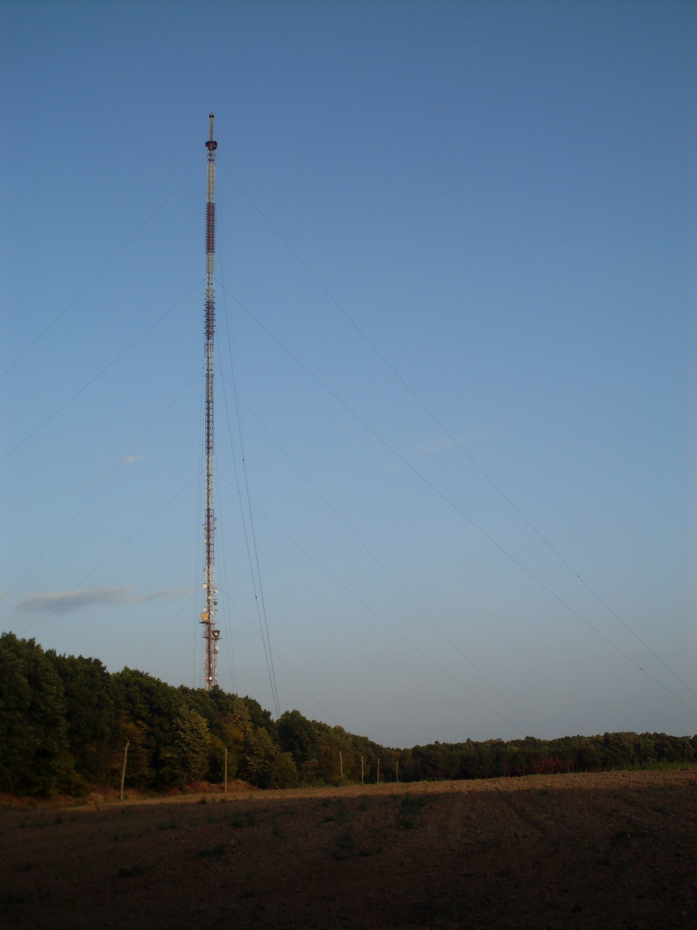 A view of Străşeni TV Mast